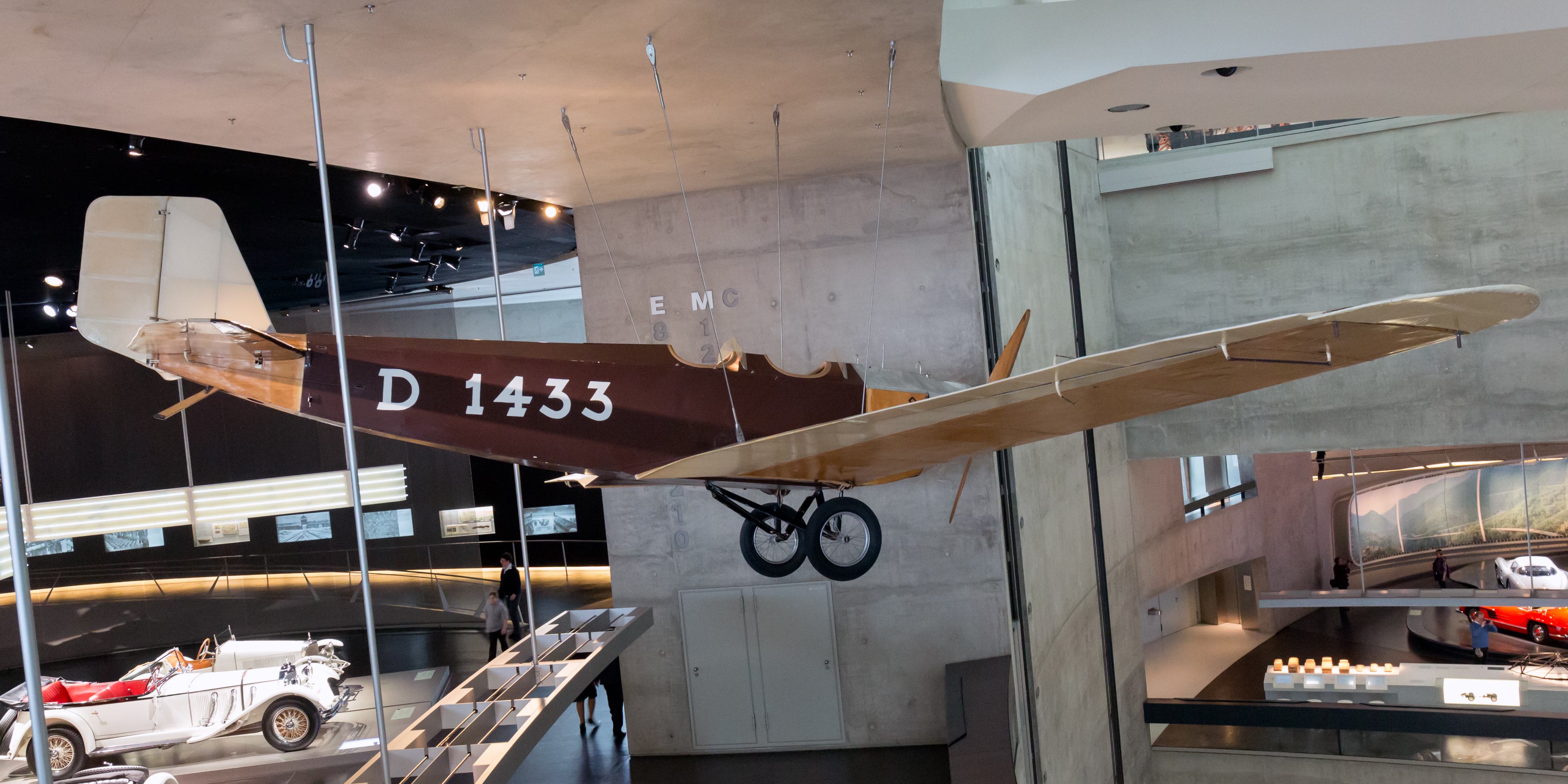 1928 Klemm L-20B1 lightweight aircraft